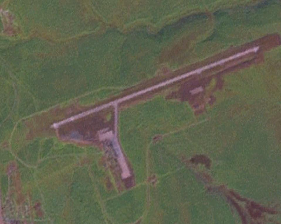 Chulman/Neryungri airfield, former Soviet Union. Image from NASA World Wind.